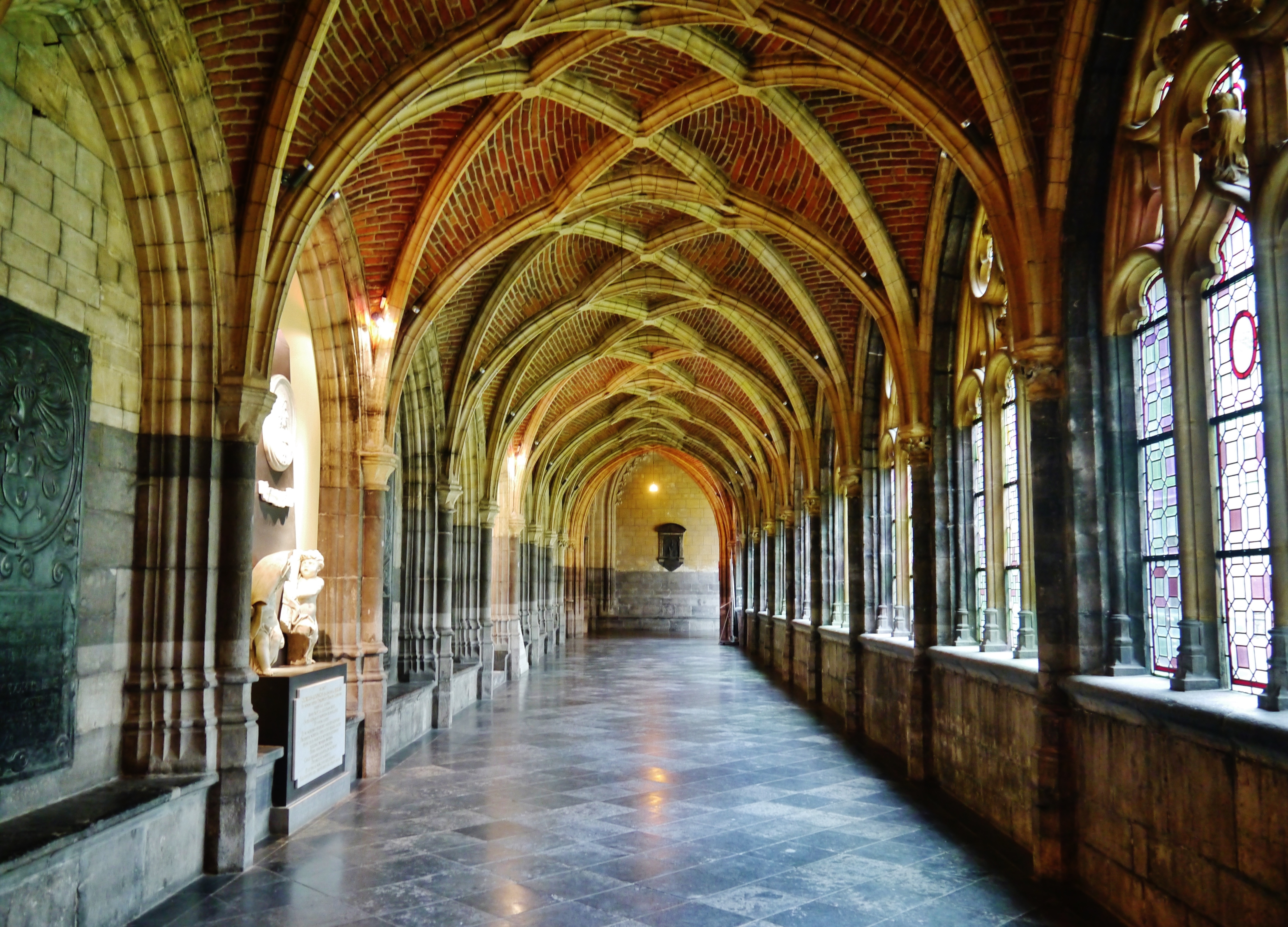 Cloister of the Cathedral St. Paul, Liège, Province of Liège, Wallonia, Belgium